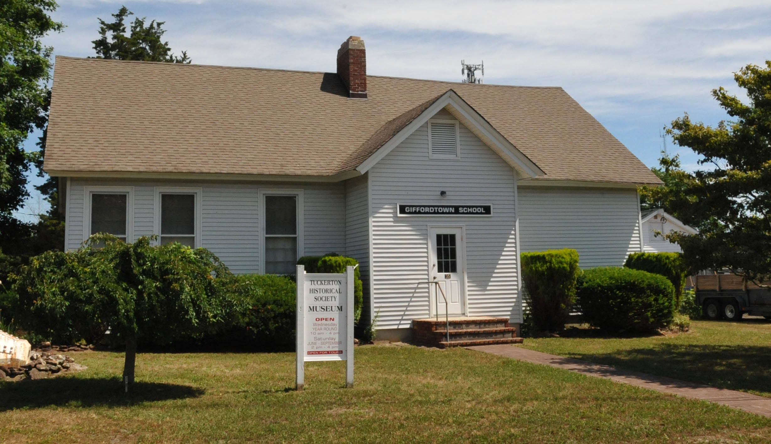 SCHOOL OPERATED UP TO 8TH GRADE UNTIL 1951; IT PROVIDED CLASSES FOR STUDENTS FROM WEST TUCKERTON AND LITTLE EGG HARBOR TOWNSHIP.. IT NOW BELONGS TO THE TUCKERTON HISTORICAL SOCIETY